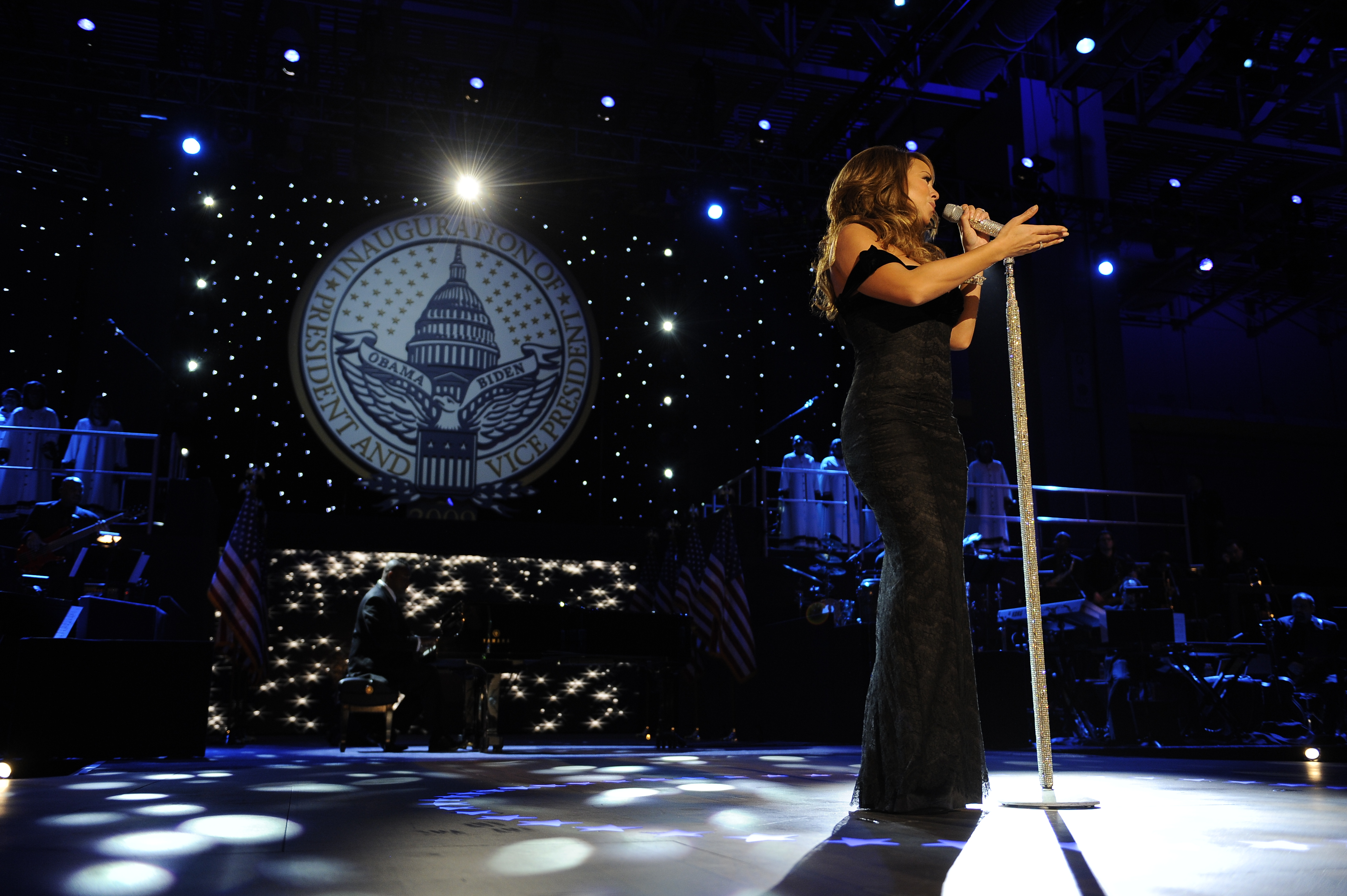 Mariah Carey sings at the Neighborhood Ball in downtown Washington, D.C., Jan. 20, 2009.